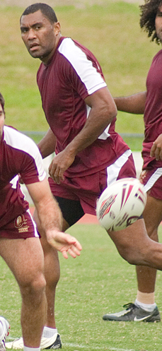 Cameron Smith and members of the Queensland State of Origin Team training in Cairns, Australia.